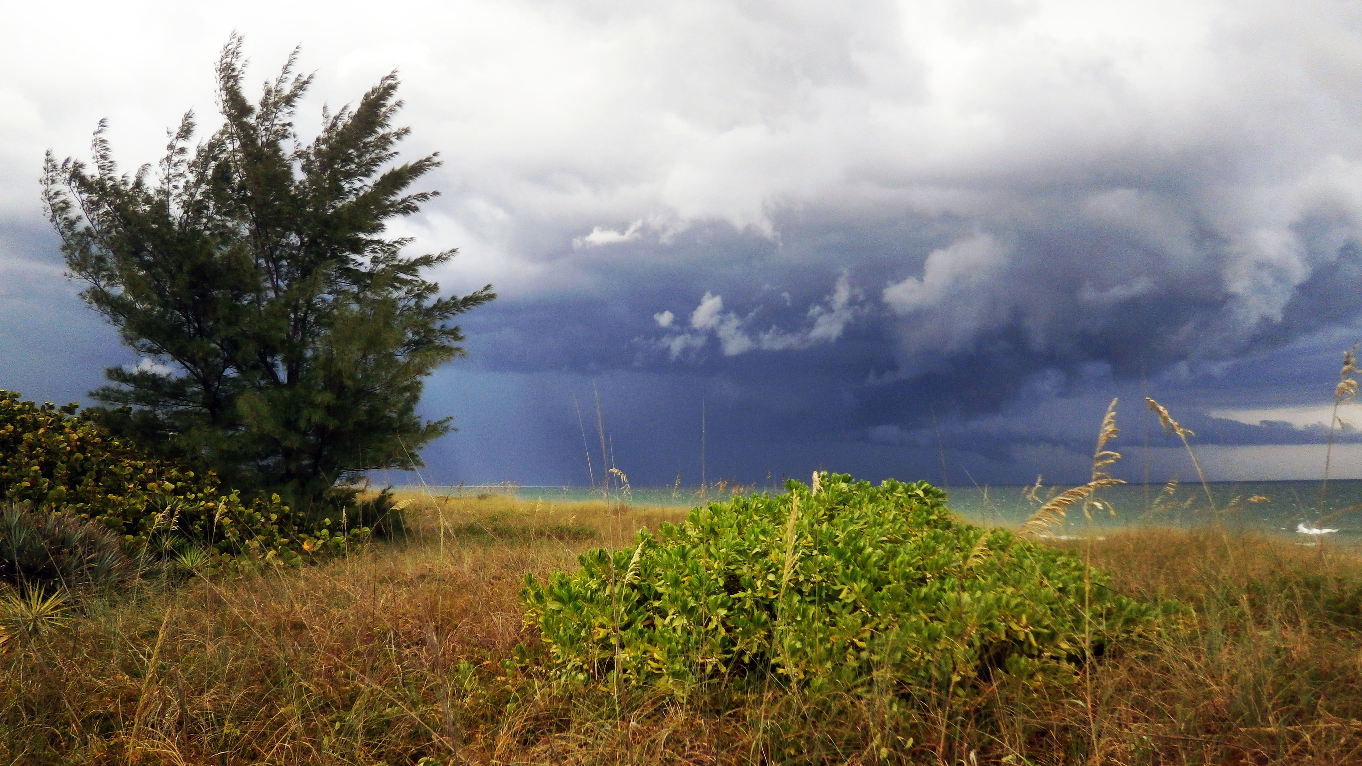 Summer storm approaching the beach at Hutchinson Island, Florida